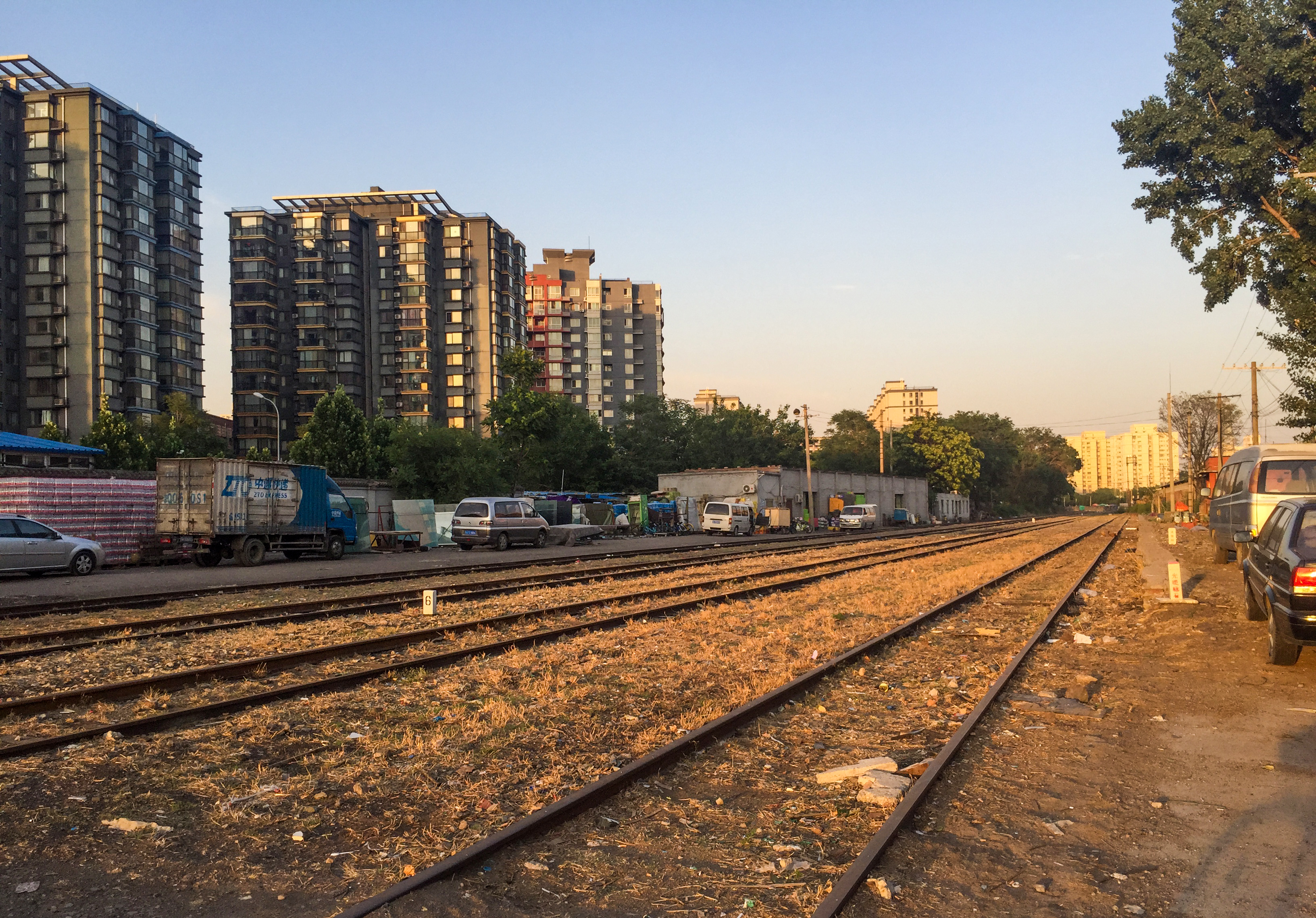 Missed a big activity (promotion of Reset, but gained the last sunset of May 2017 here.